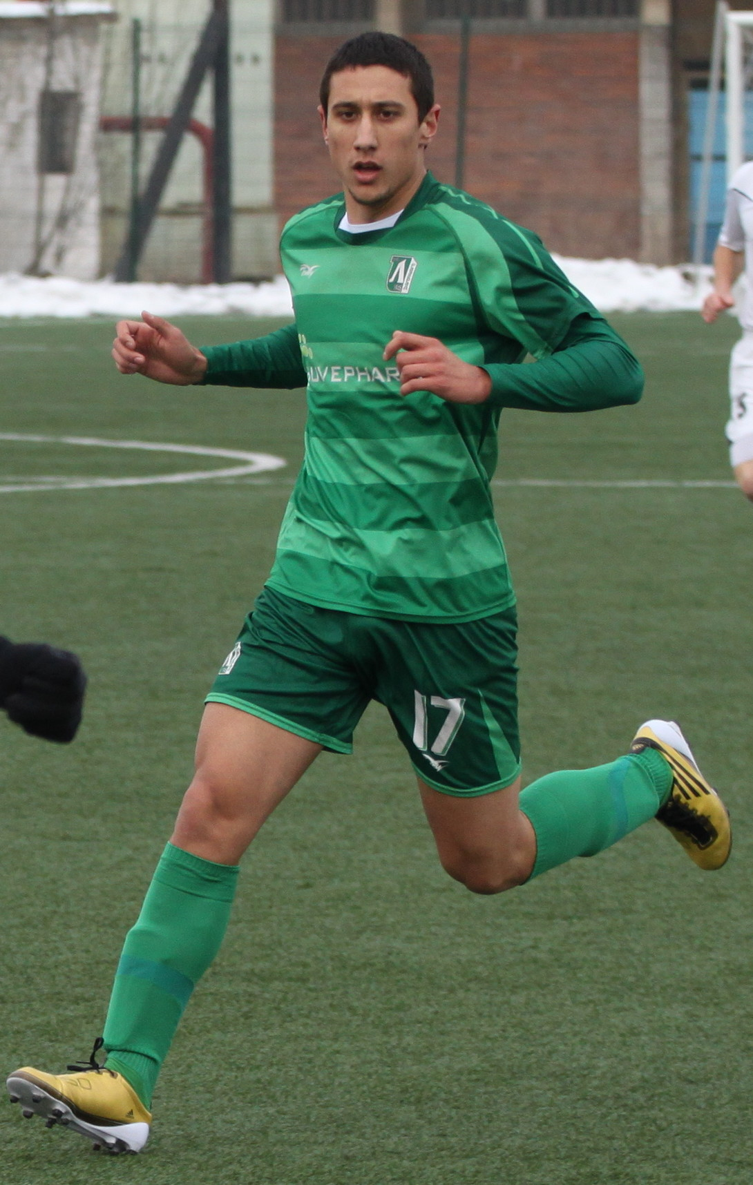 Mihail Aleksandrov (Bulgarian: Михаил Александров; also Alexandrov) (born 11 June 1989 in Sofia) is a Bulgarian footballer. A midfielder, he currently plays for Ludogorets Razgrad.